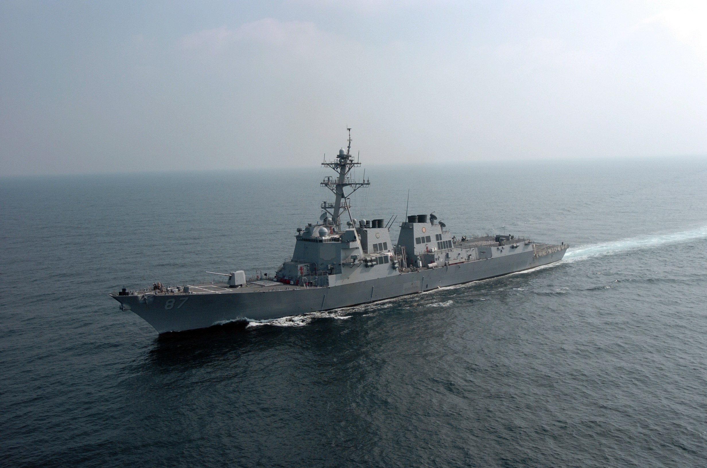 Persian Gulf (Jan. 2, 2005) – The guided missile destroyer USS Mason (DDG 87) patrols the Northern Persian Gulf. Mason is on her first deployment to the Persian Gulf as part of the USS Harry S. Truman (CVN 75) Carrier Strike Group, to support coalition efforts in the Global War on Terrorism. U.S. Navy photo by Photographer's Mate 2nd Class Peter J. Carney (RELEASED)